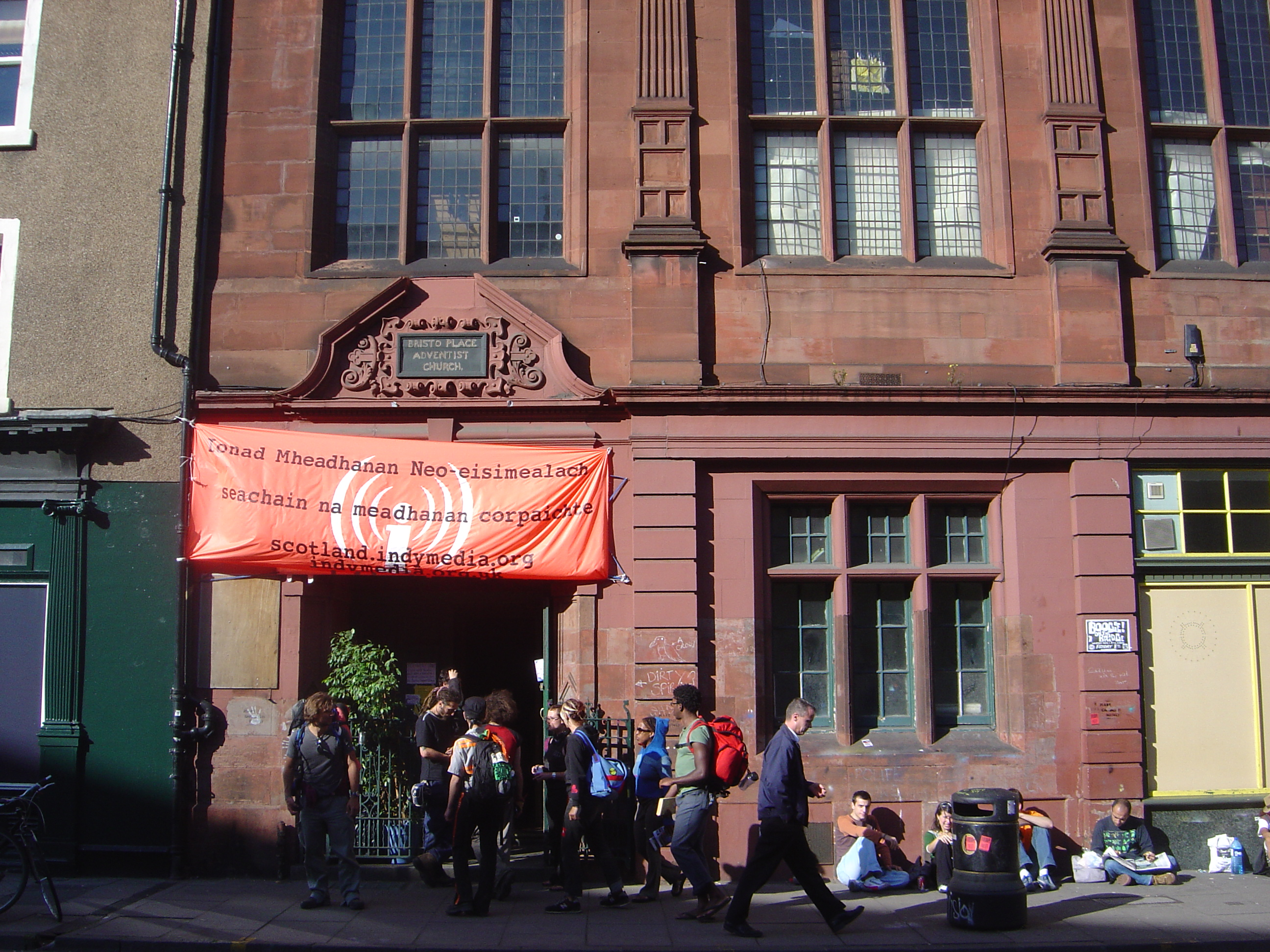 Indymedia Edinburgh site 2005/07/07